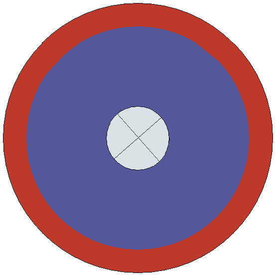 Shield pattern of Septimani in the early 5th century